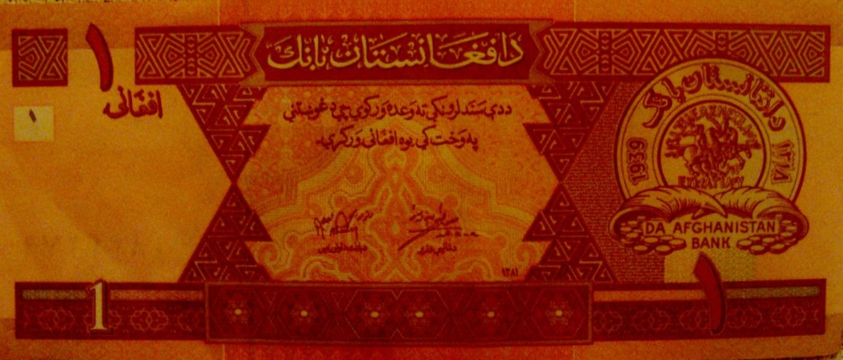 1 Afghan afghani